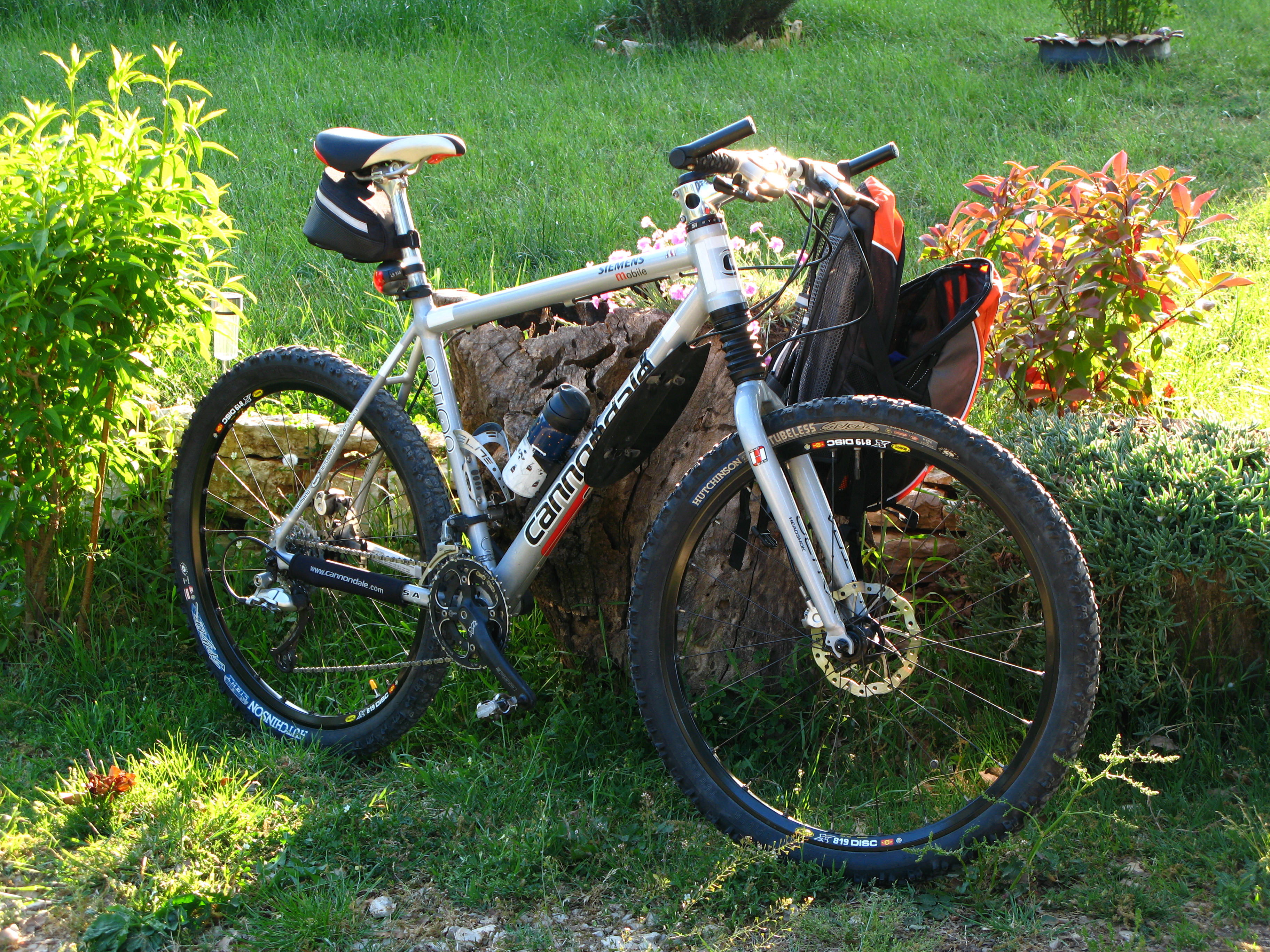 Cannondale F900 SL